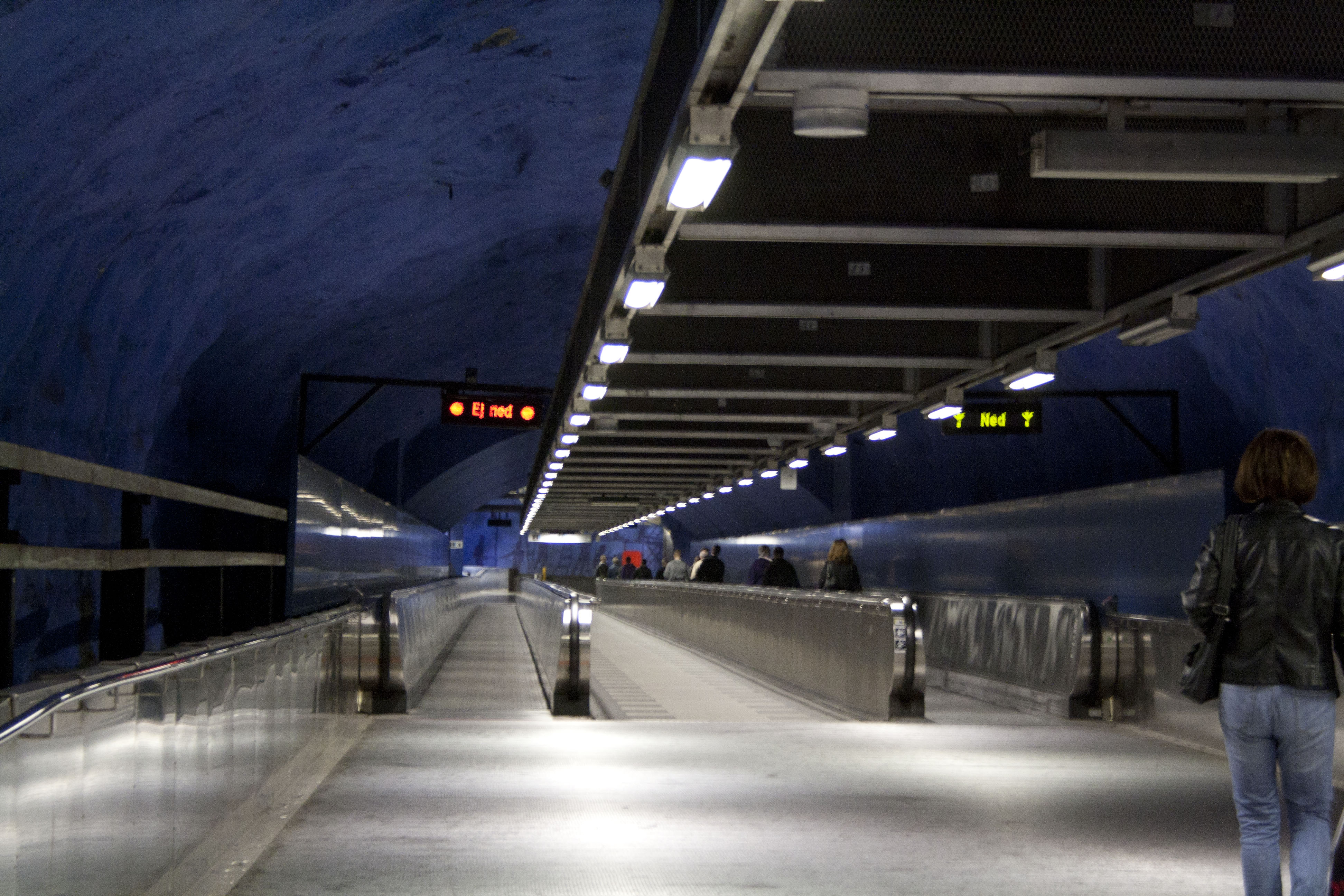 A passageway to the Blue line at T-Centralen in Stockholm.